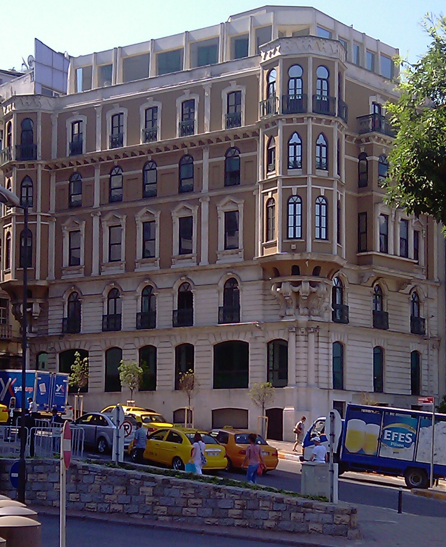 Pera, historical area in Beyoglu, Istanbul